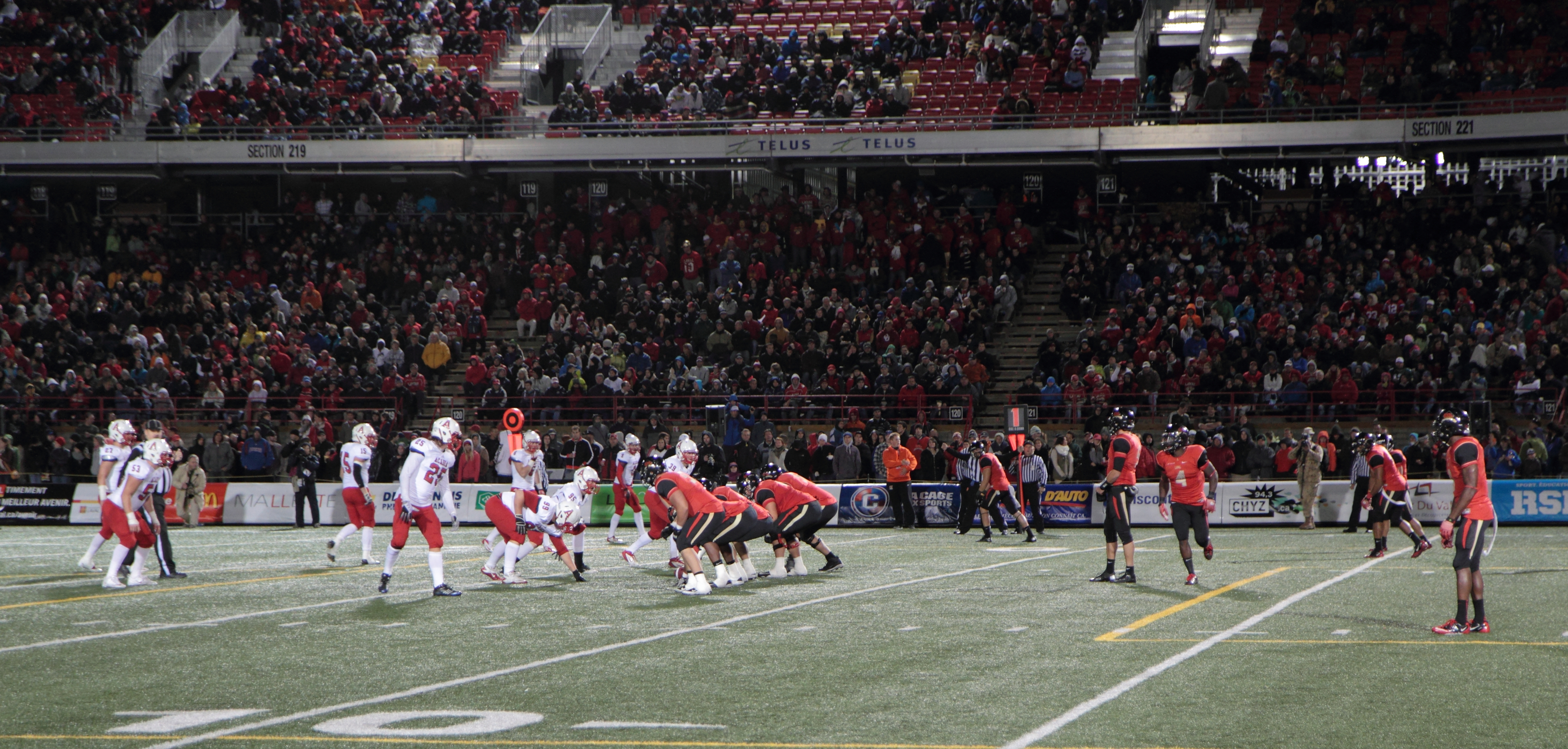 Football game opposing Laval Rouge et Or and Axemen at Laval